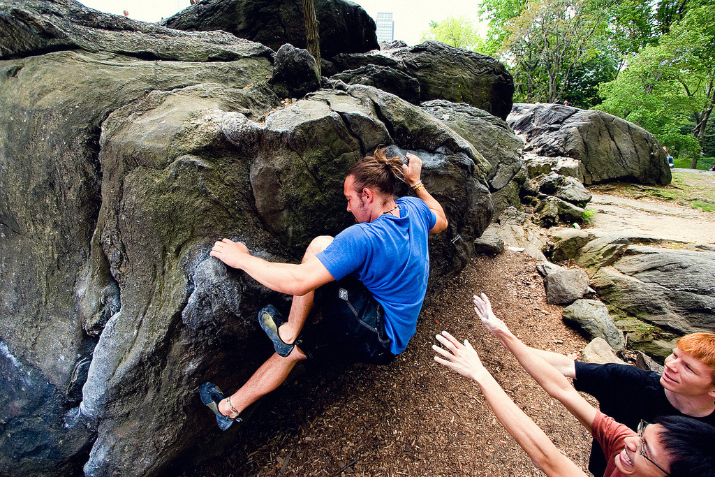 Boulderer climbing Rat Rock.